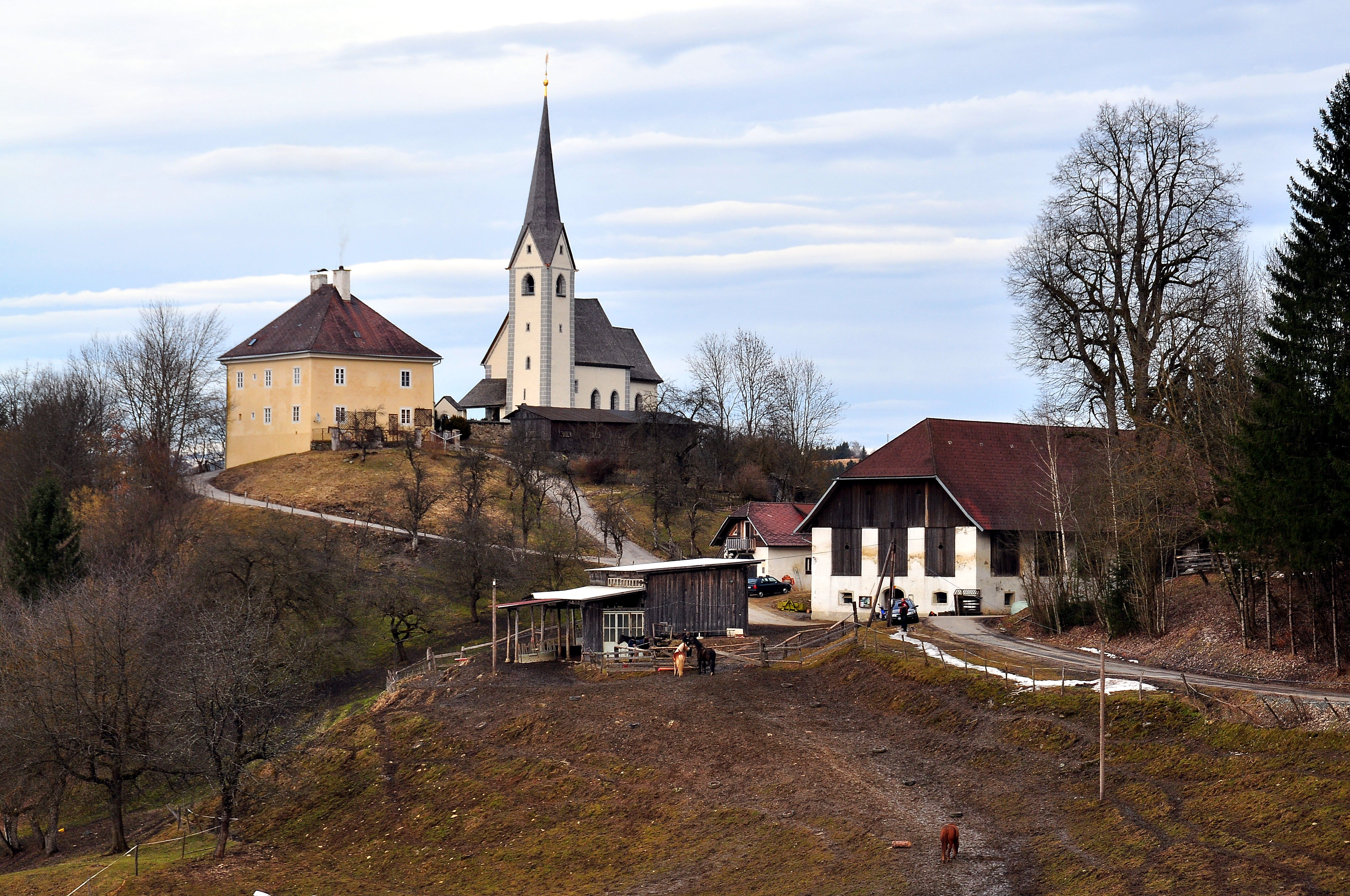 Parish church “Saint Gangolf” at Sankt Gandolf, municipality Glanegg, district Feldkirchen, Carinthia, Austria, EU